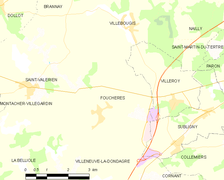 Map of French municipality Fouchères